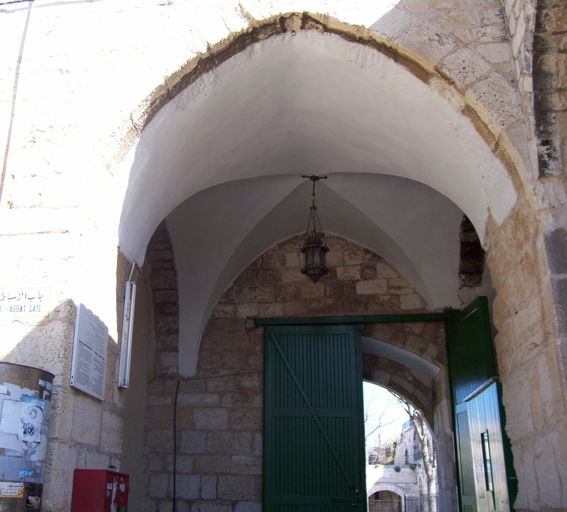 Bab-al-asbat (literally: Gate of the Tribes) at the north-eastern corner of the Temple Mount